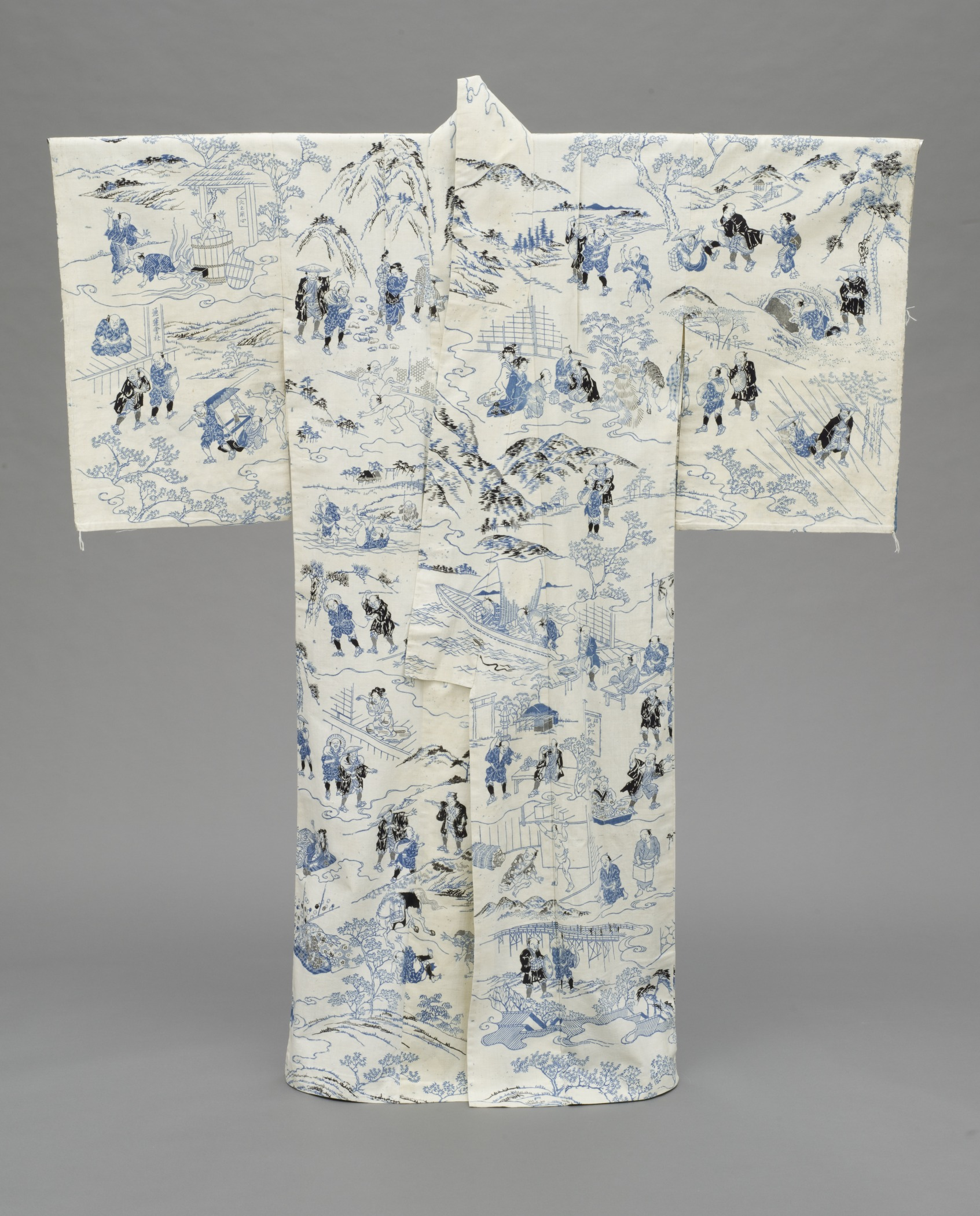 Japan, Edo period, early 19th century Costumes; principal attire (entire body) Cotton plain weave, stencilled paste-resist dyeing (katazome); silk crepe (chirimen) lining Center back length: 55 1/2 in. (140.97 cm) Costume and Textiles Deaccession Fund (M.2006.37.6) Costume and Textiles